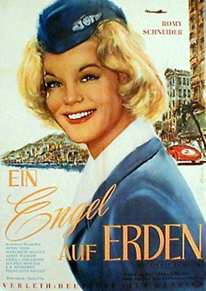 Movie poster for the film An Angel on Wheels (1959).